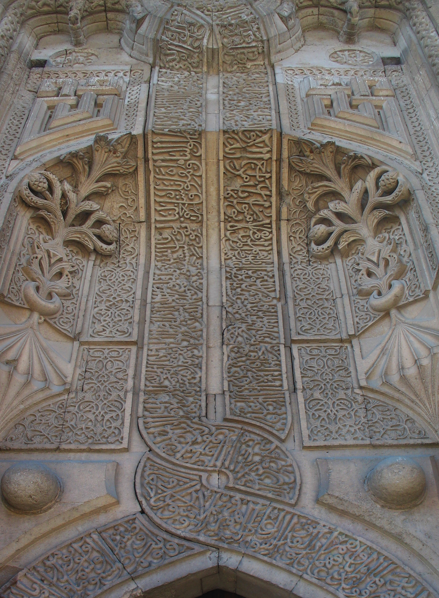 Calligraphy around the entrance to the Museum of Stone and Wood Works of the Seljuk Era (Selçuklu Devri Taş ve Ahşap Eserler Müzesi or Ince Minare Museum), Konya, Turkey; formerly a religious school known as the Ince Minare Madrasah (İnce Minare Medresesi).